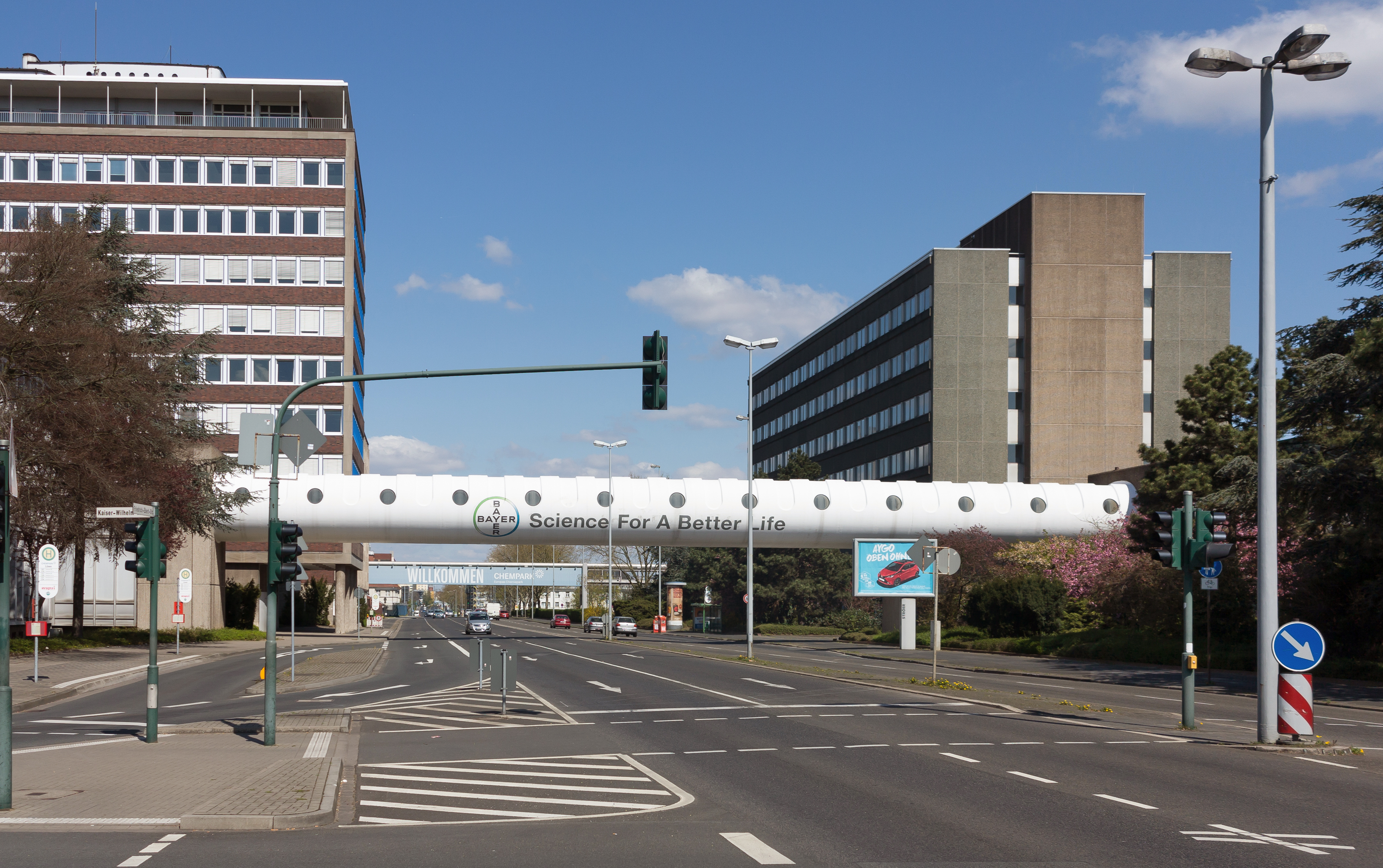 Leverkusen, view to a street: Bayer - Science for a better life